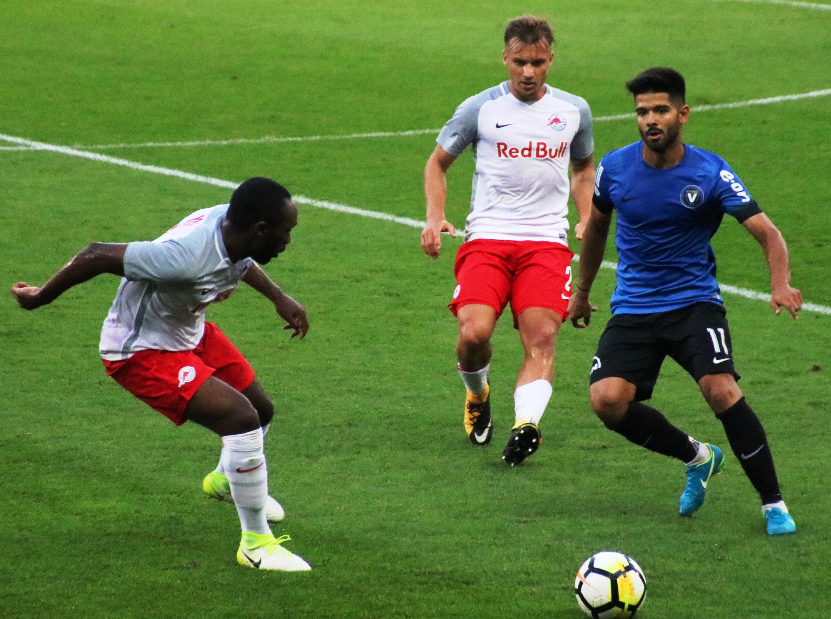 Euroleague play off 2nd leg